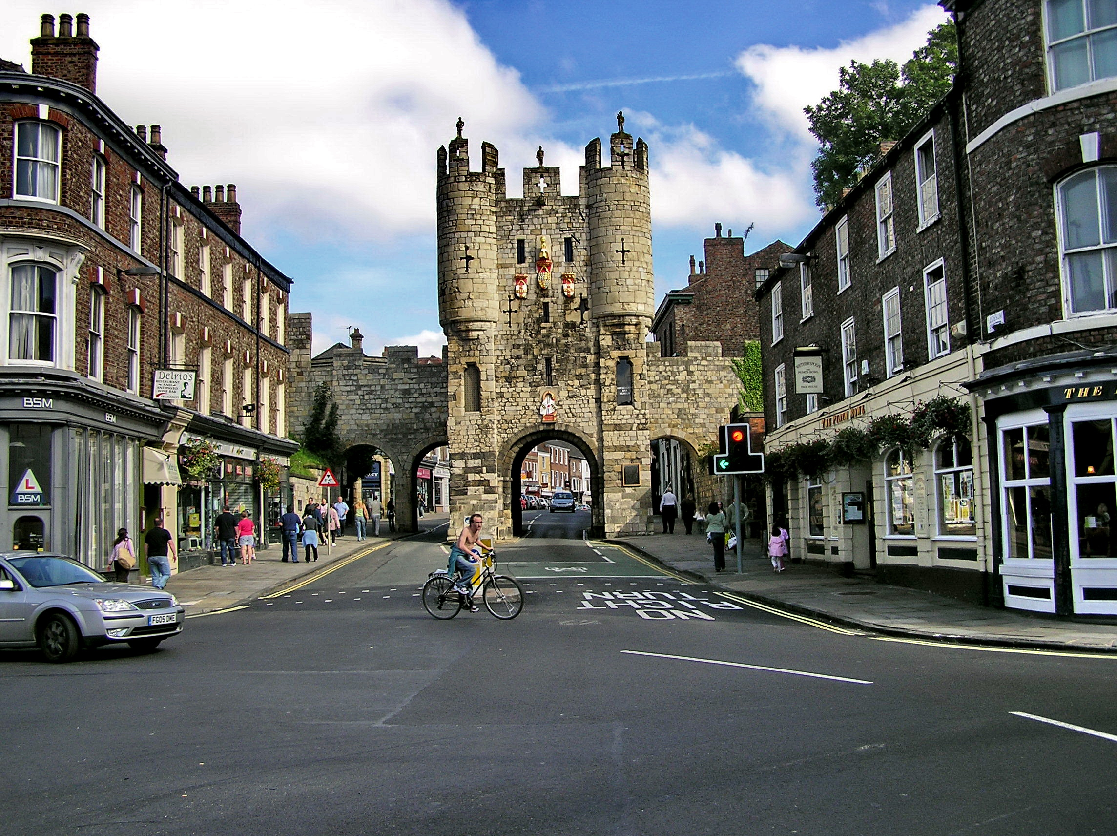 York Micklegate Bar